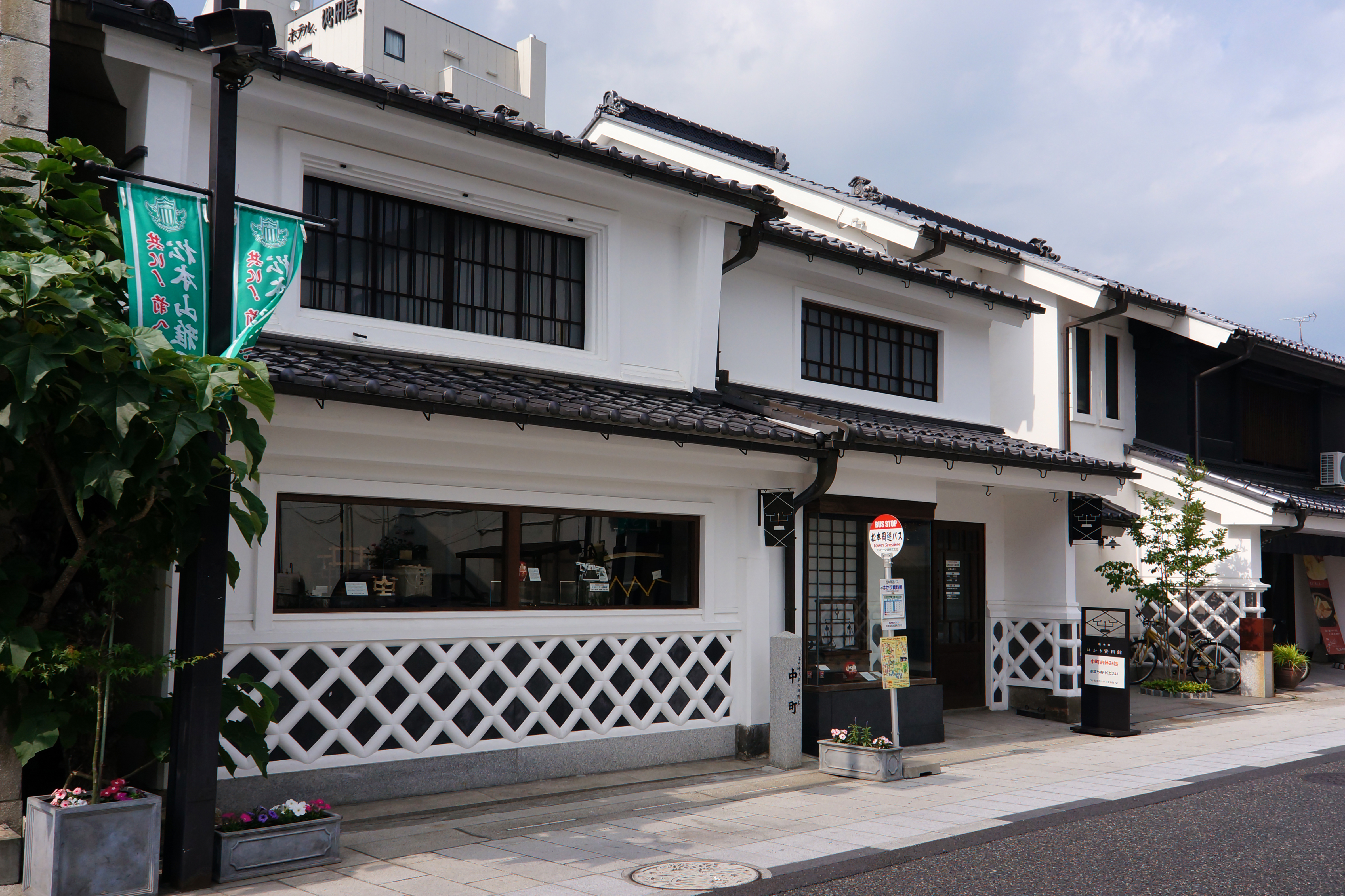 At Nakamachi street in Matsumoto, Nagano prefecture, Japan.